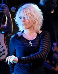 Kim Wilde live in Groningen, 2007